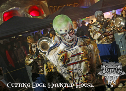 This is a picture of cutting edge haunted house out side drum line in action.